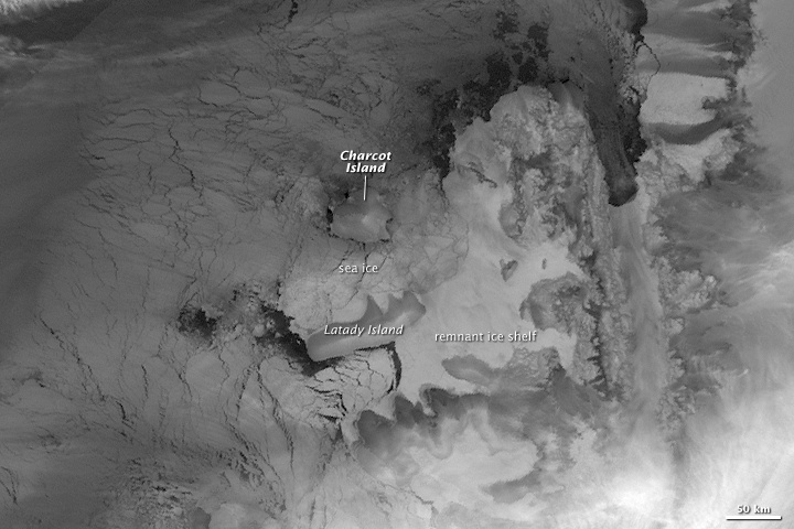 NASA Earth Observatory Satellite image of Charcot Island and the remnant Wilkins ice shelf, Antarctica